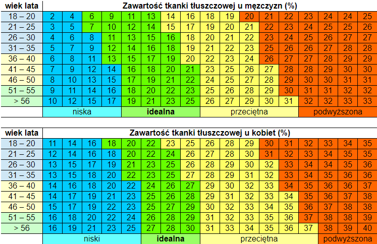 Fat content in men and women depending on age